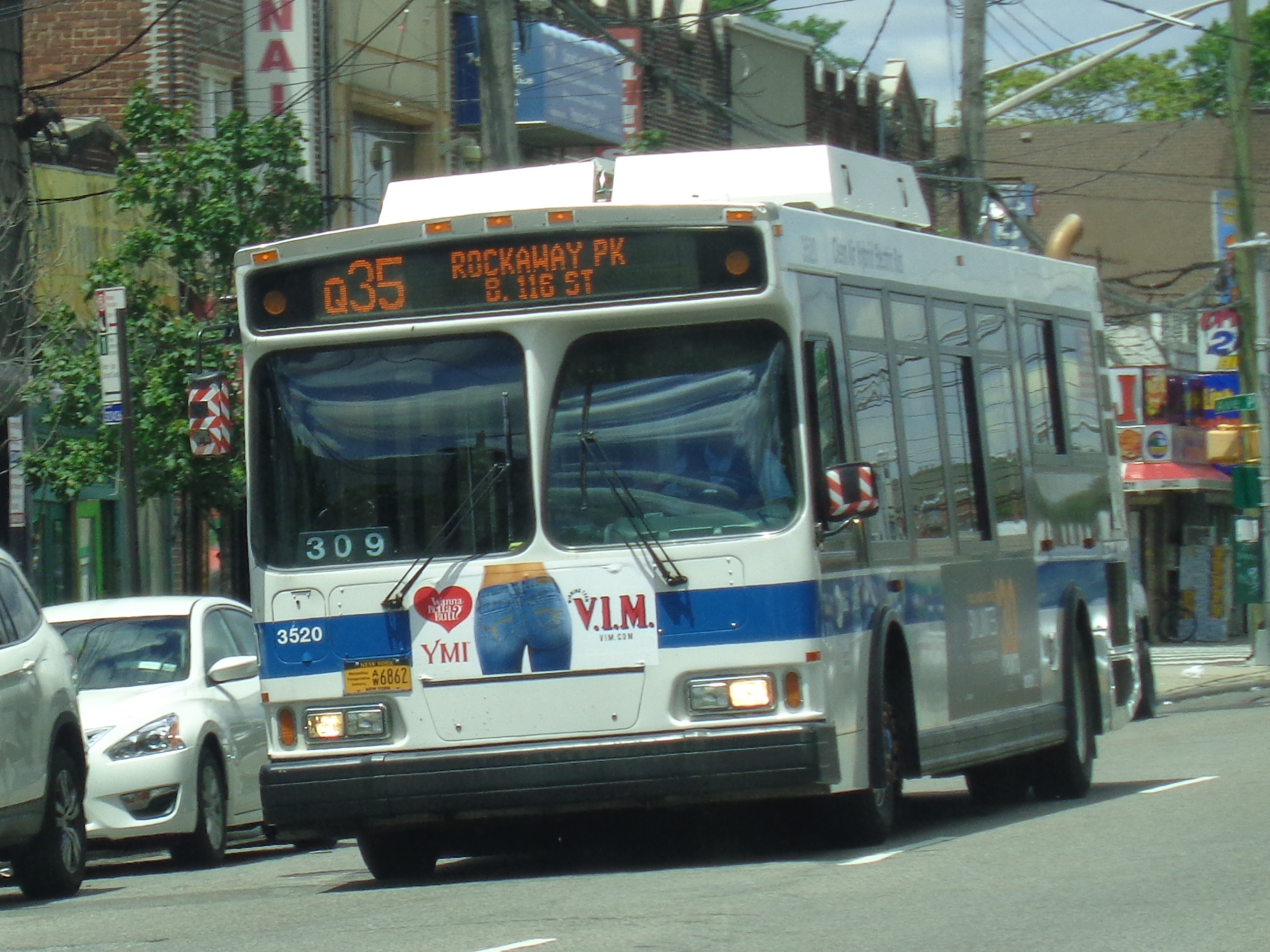 A Rockaway Park-bound Q35 bus on Flatbush Avenue in southern Brooklyn, New York City.